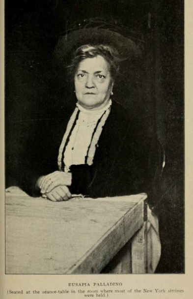 The spiritualist medium Eusapia Palladino.